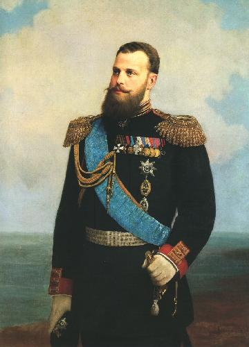 Alexey Korzukhin (1835-1894) Portrait of Grand Duke Alexei Alexandrovich